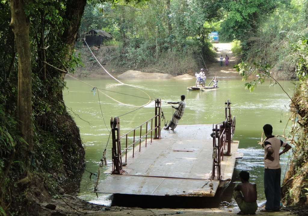 Palam Paruwa at Kalu River